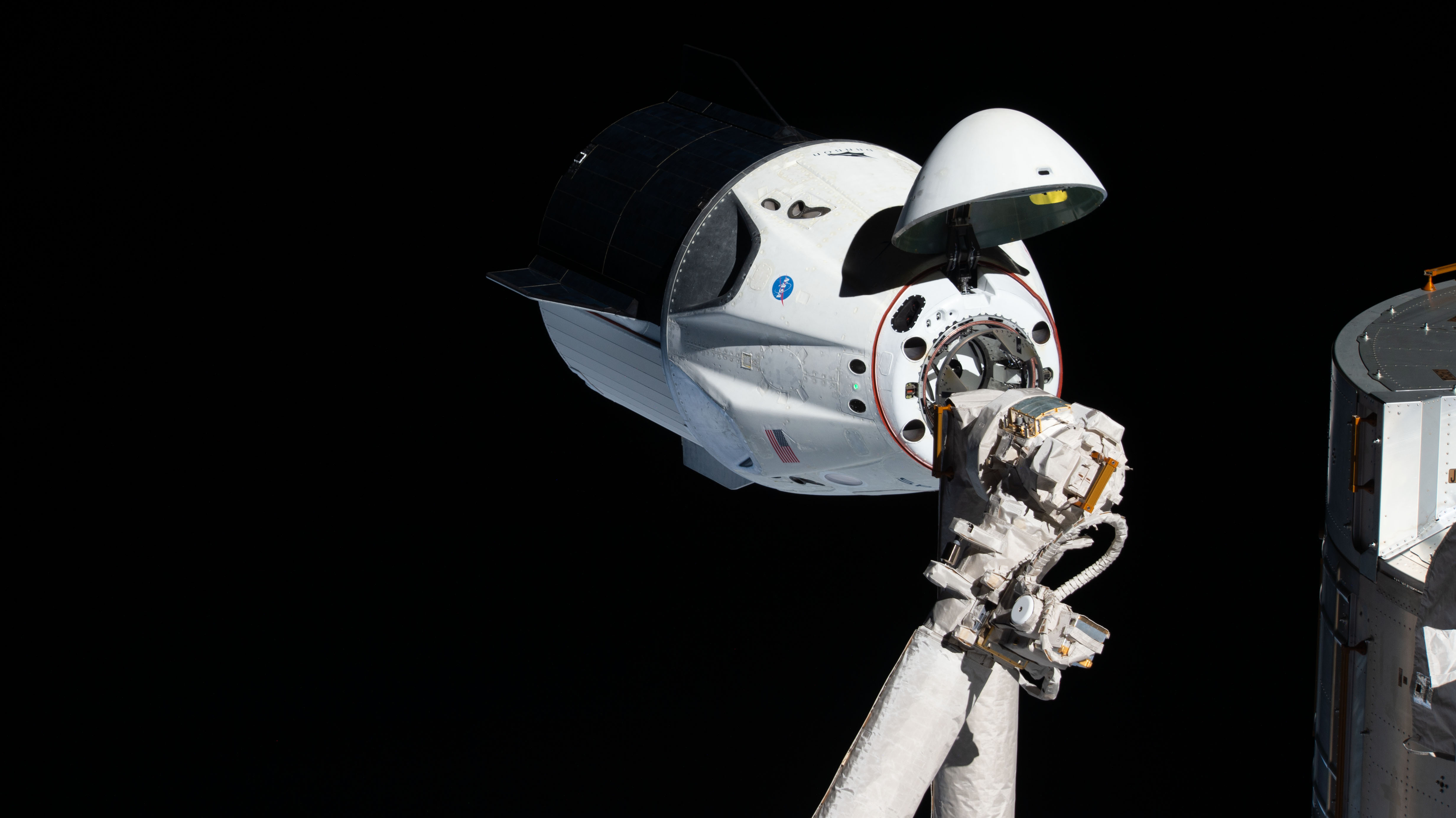 The uncrewed SpaceX Crew Dragon spacecraft is the first Commercial Crew vehicle to visit the International Space Station. Here it is pictured with its nose cone open revealing its docking mechanism while approaching the station's Harmony module. The Crew Dragon would automatically dock moments later to the international docking adapter attached to the forward end of Harmony.